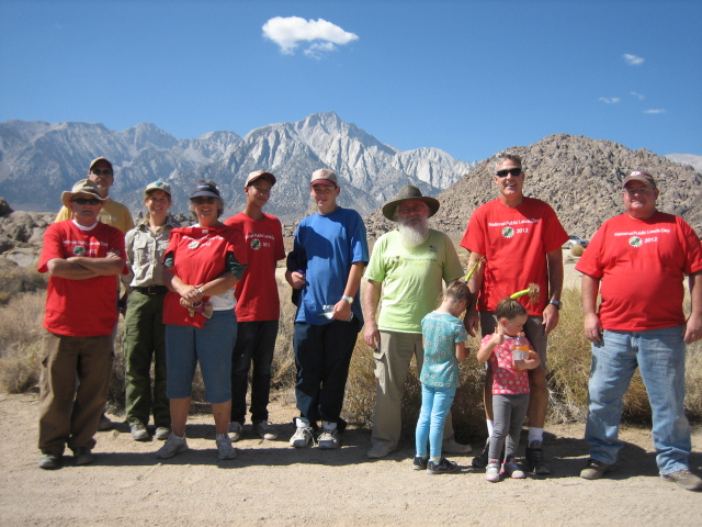 Residents of the Eastern Sierras volunteered their time on NPLD 2012 to clean up public lands in the Alabama Hills near Lone Pine, California. The NPLD cleanup project was held in conjunction with the Alabama Hills Community Spirit Day, which is hosted by the Alabama Hills Stewardship Group and the Alabama Hills Film Festival. Pictured from left; Chris Langley, Wally Snyder, Becca Brooke (BLM), Linda Hubbs, Luis Camacho, Michael Schell, Russ Monroe, Kevin Mazzu with daughters Coco and Sophia and Warner Fellows. Not shown are Donna Grunewald and Rich Williams (BLM). Photo by David Christy, BLM Central California District PAO, and Rich Williams, Outdoor Recreation Planner at Bishop Field Office.